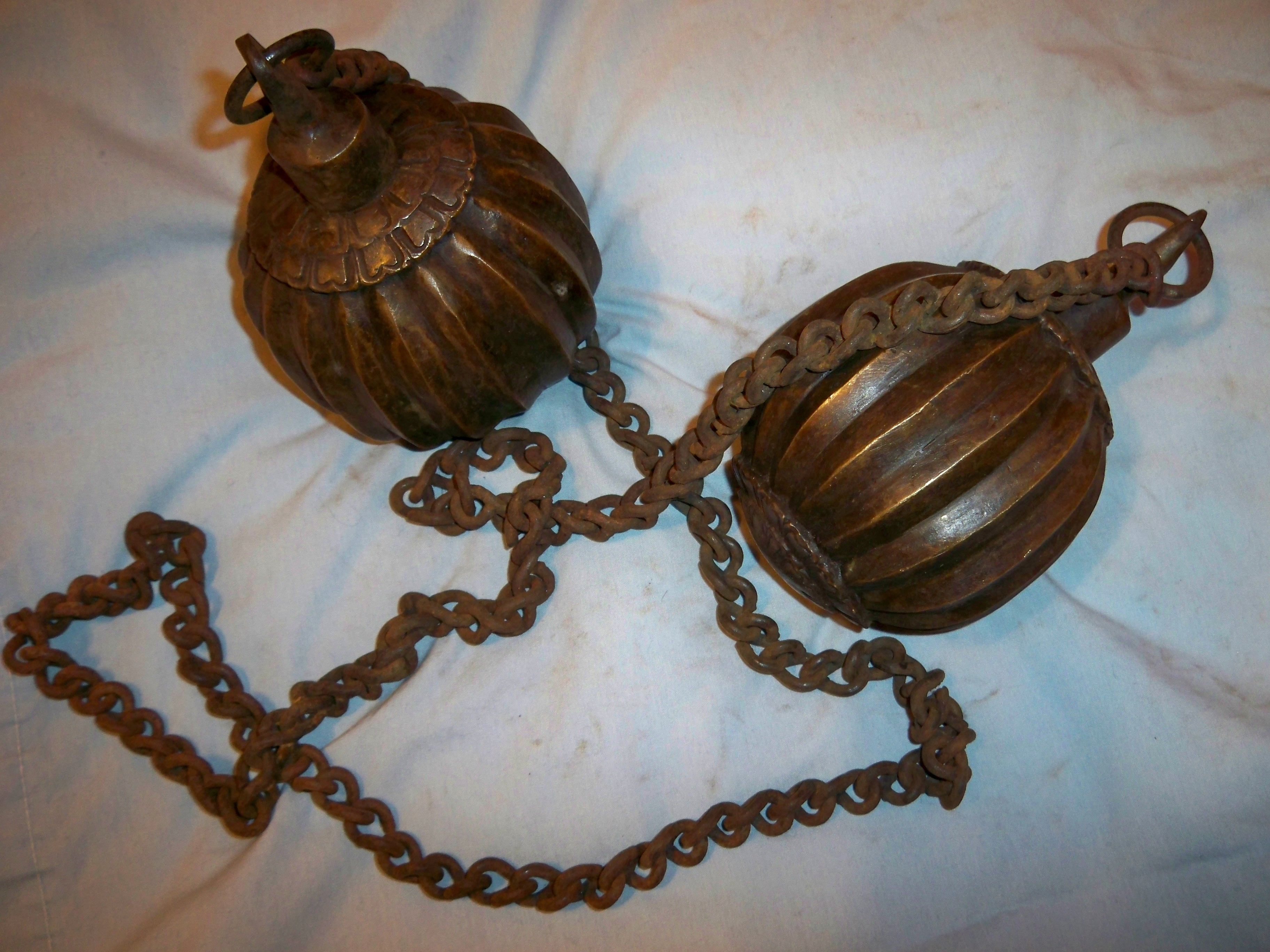 Meteor hammer, a chain weapon with two large weights connected to each other by a length of chain.